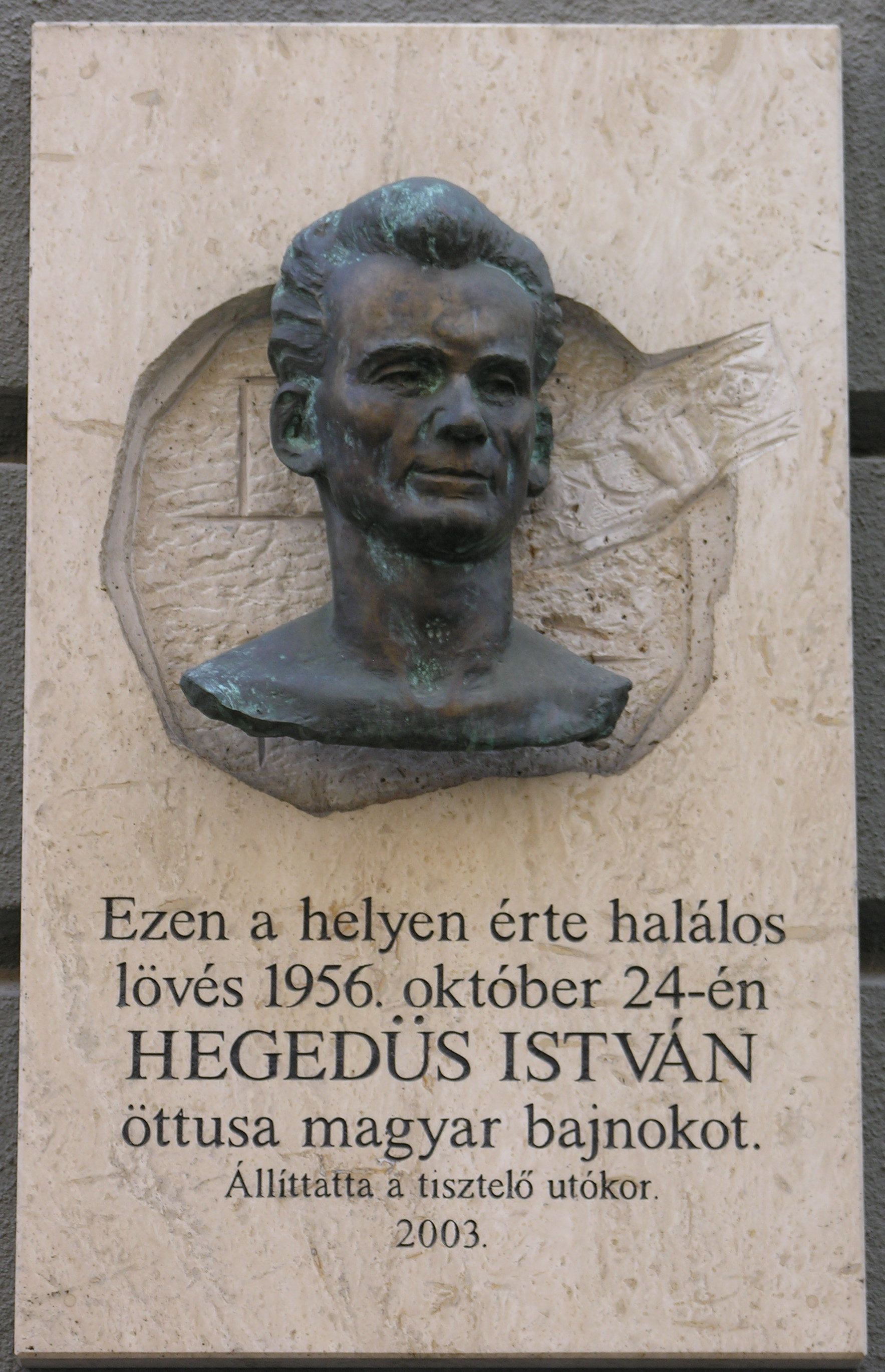 István Hegedűs commemorative plaque with relief in Budapest District VI, Szófia Street No 7. Created by István Marosits.